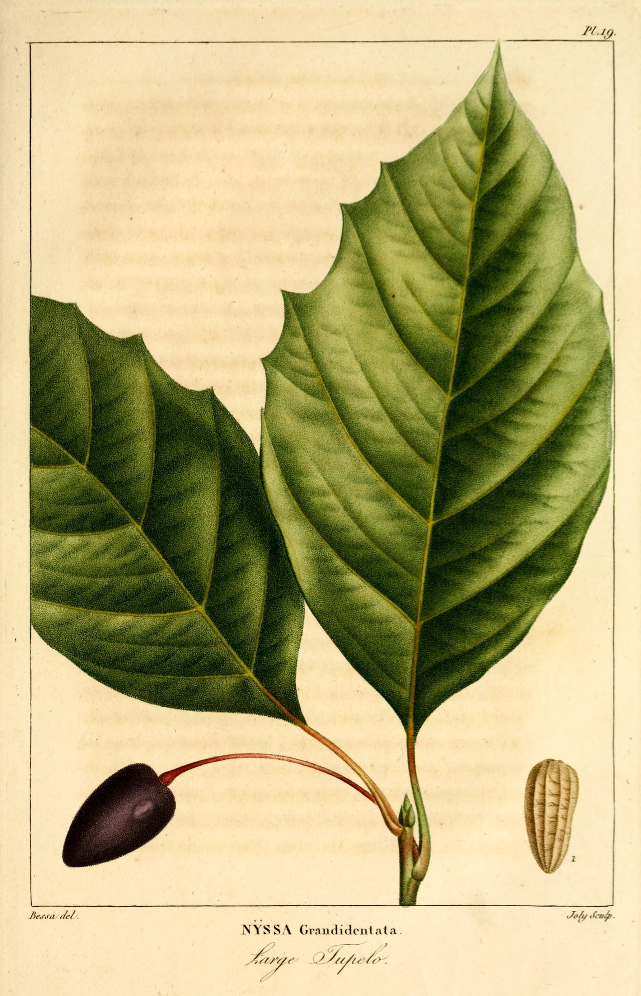 Pl.lf,. Ae..:rn ,M JV YS SA Grandident at a J.'^A-tt^. a/'ac jyf//fr/,.'.